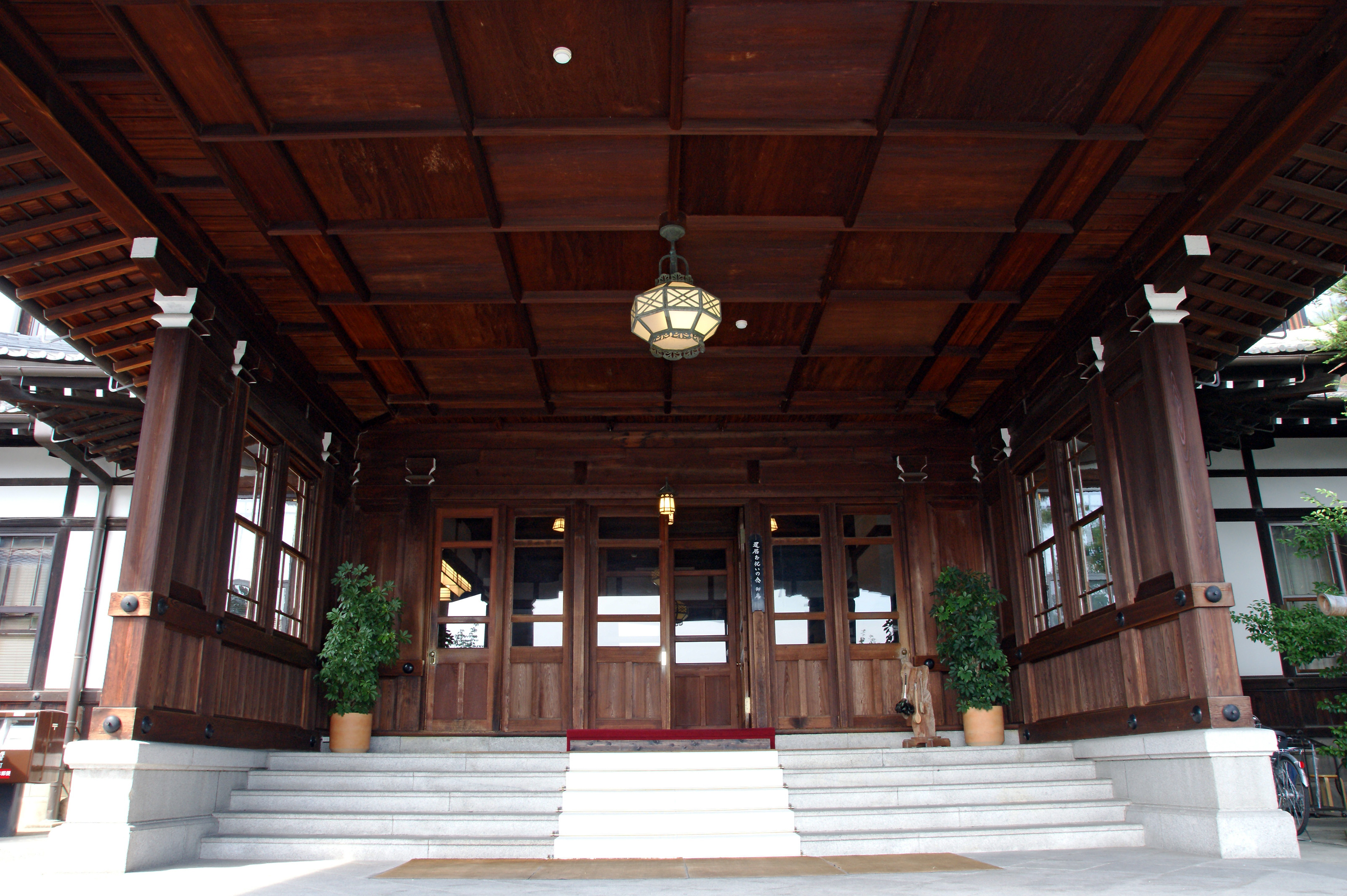 Nara Hotel in Nara, Nara prefecture, Japan